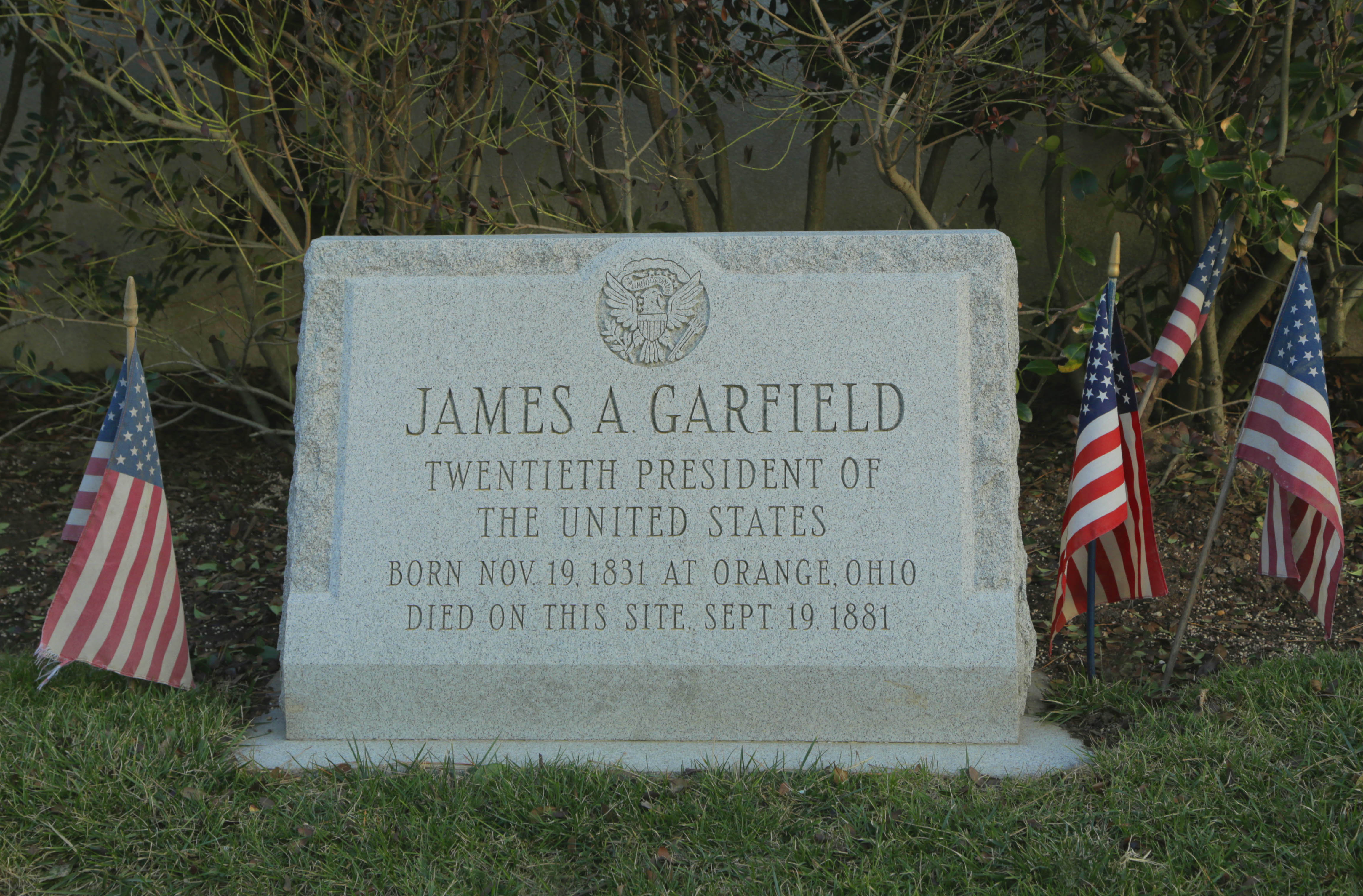 James A. Garfield death site marker in New Jersey